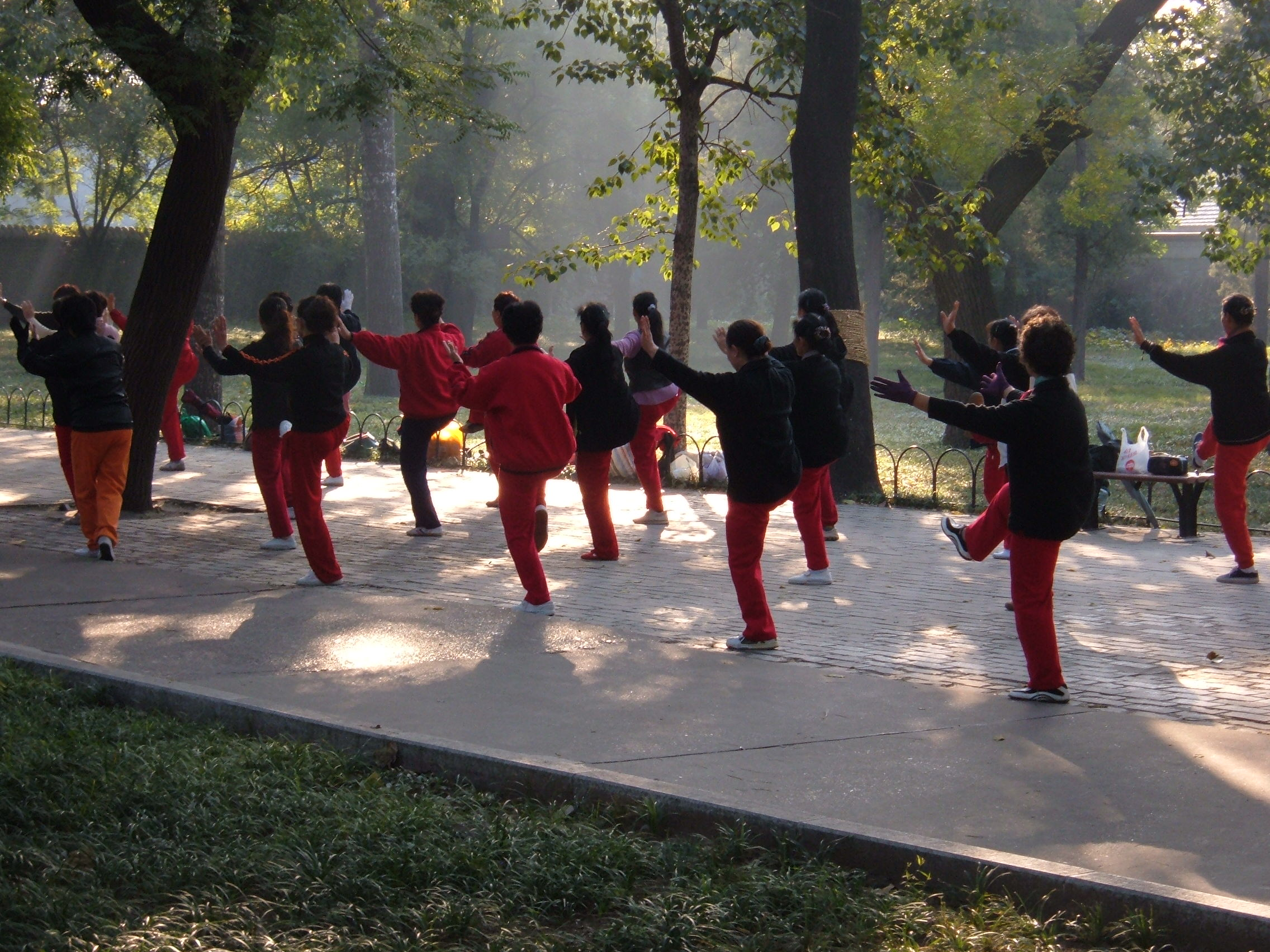 People performing Tai Chi Chuan at the Temple of Heaven Park in Beijing, China.